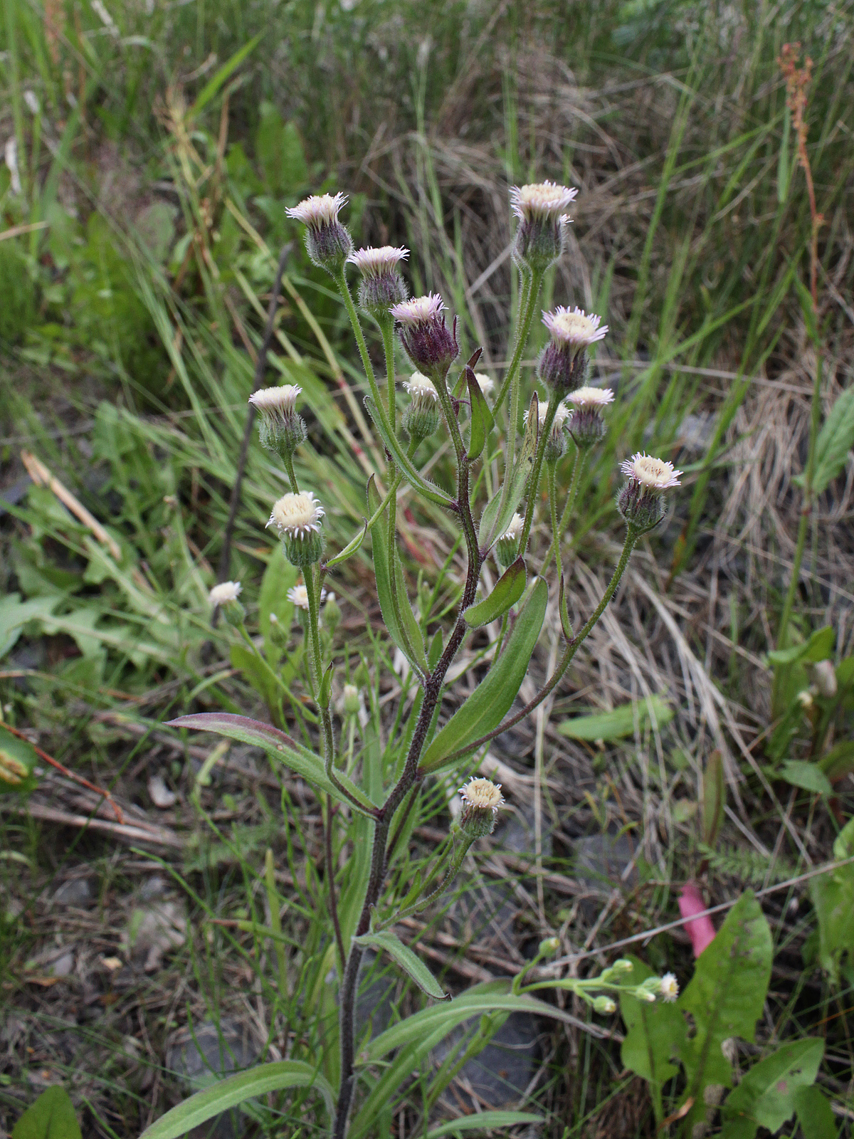 Asteraceae, Erigeron acris ssp. acris